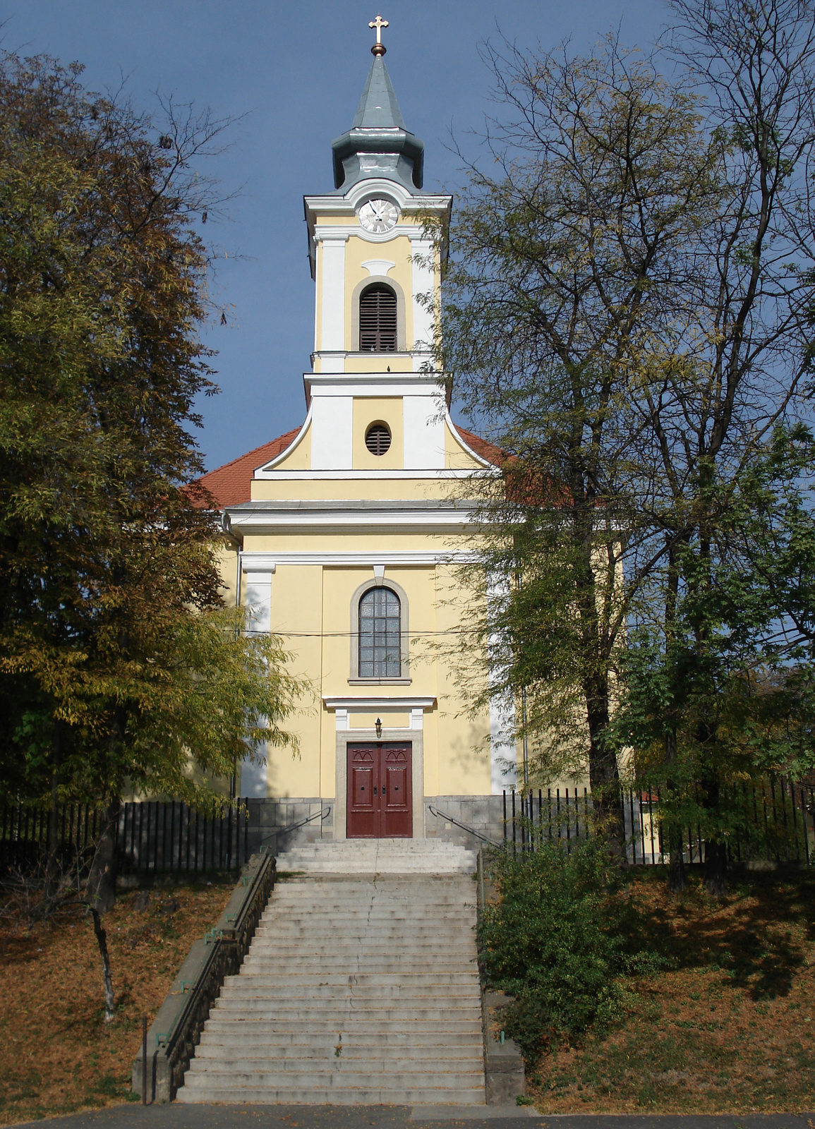 St. Anne's Church. - This is a Roman Catholic parish church. Locally it is often referred to as "Red Church", because of its red roof. The church was built between 1816 and 1823, in late Baroque style with some Neoclassical elements; the altar and the pulpit are late Neoclassical. The first public clock of the city was in the church's tower. The rectangular sanctuary of this two naves church, covered with 'Czech-cap' vault. - Szent Anna tér, Miskolc This is a photo of a monument in Hungary, Identifier: 2941